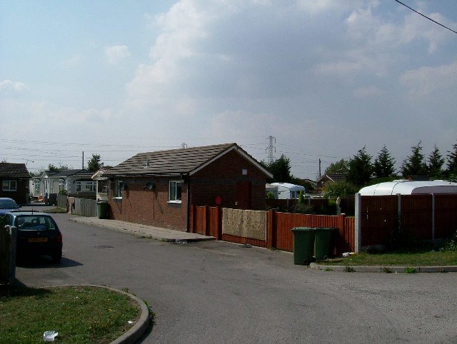 Travellers Rest. Thurrock has three permanent traveller sites like this one.